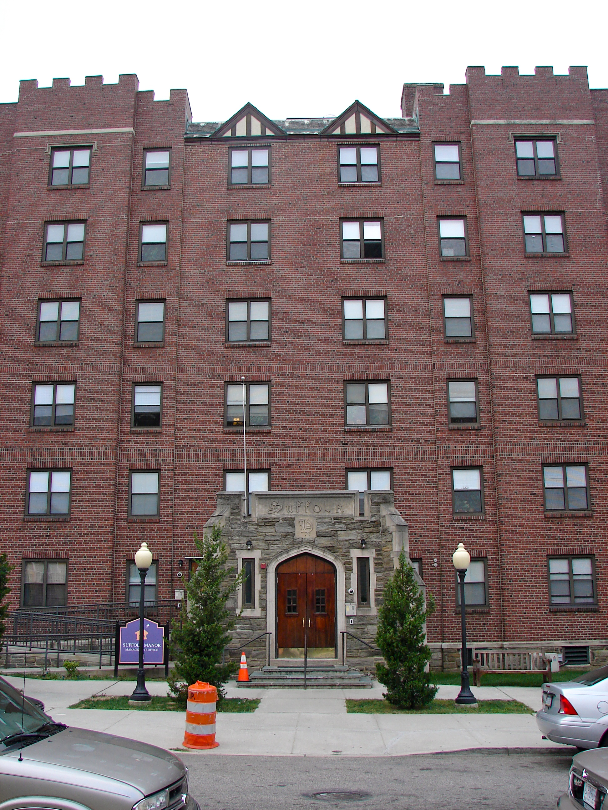 Suffolk Manor Apartments on the NRHP since December 20, 2002. At 1414–1450 Clearview St. in the Ogontz neighborhood of North Philly.